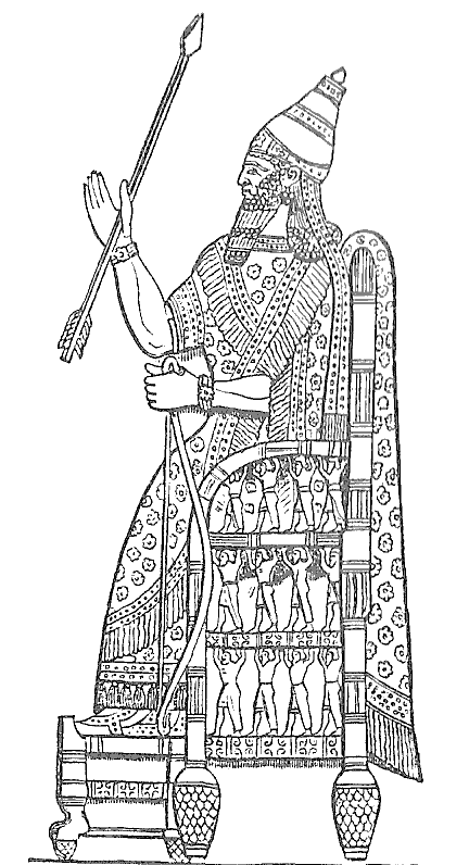 Sennacherib sitting on the throne.